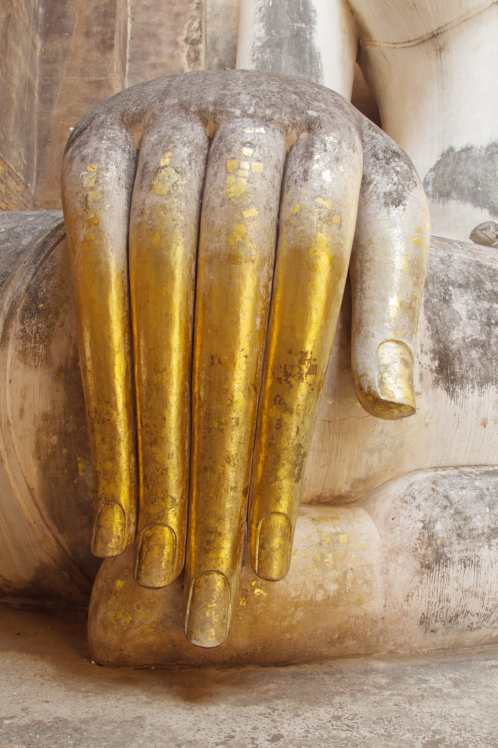 Fingers of a Buddha image gilded with gold at Wat Si Chum, Sukhothai Historic Town, Sukhothai, Thailand